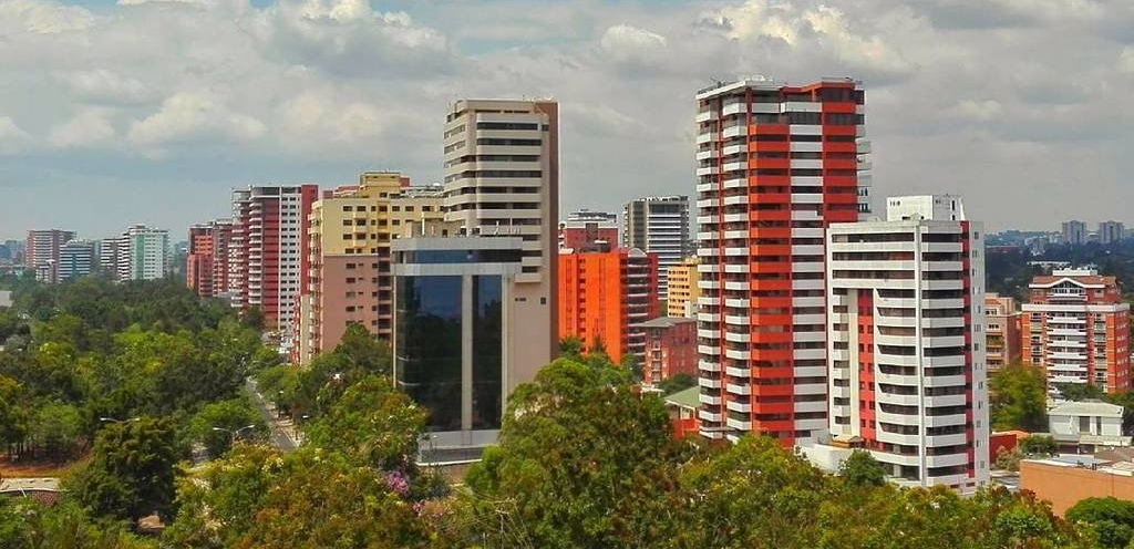 Buildings in zone 14 of Guatemala City